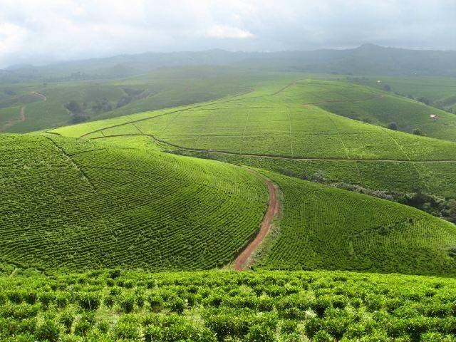 Sardauna local government area - Taraba State. The place is naturally beautiful and popularly known as the Mambila Plateau.